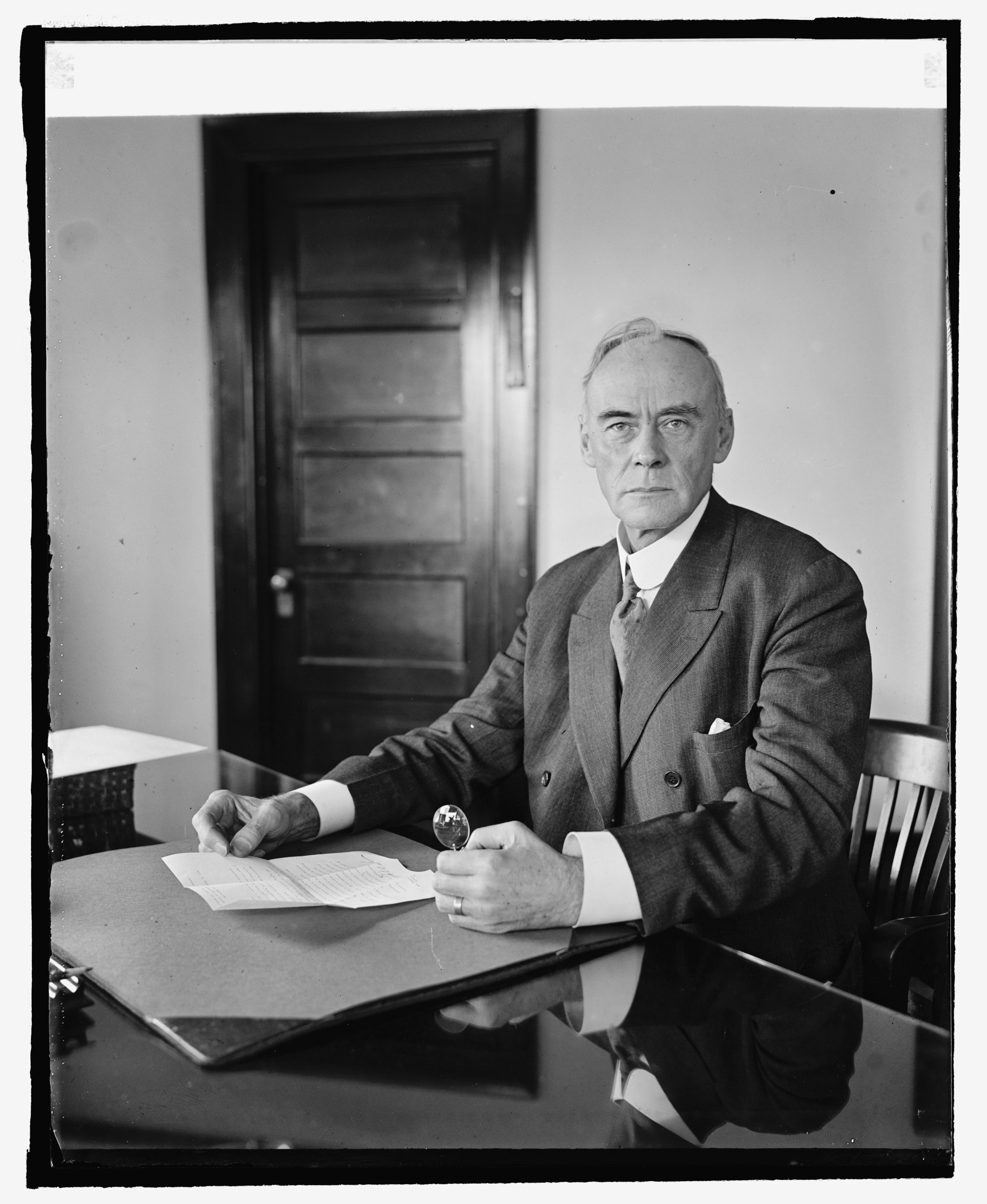 Title: Thos. F. Woodlock, Inter. Commerce Com., 4/1/25 Abstract/medium: 1 negative : glass ; 4 x 5 in. or smaller